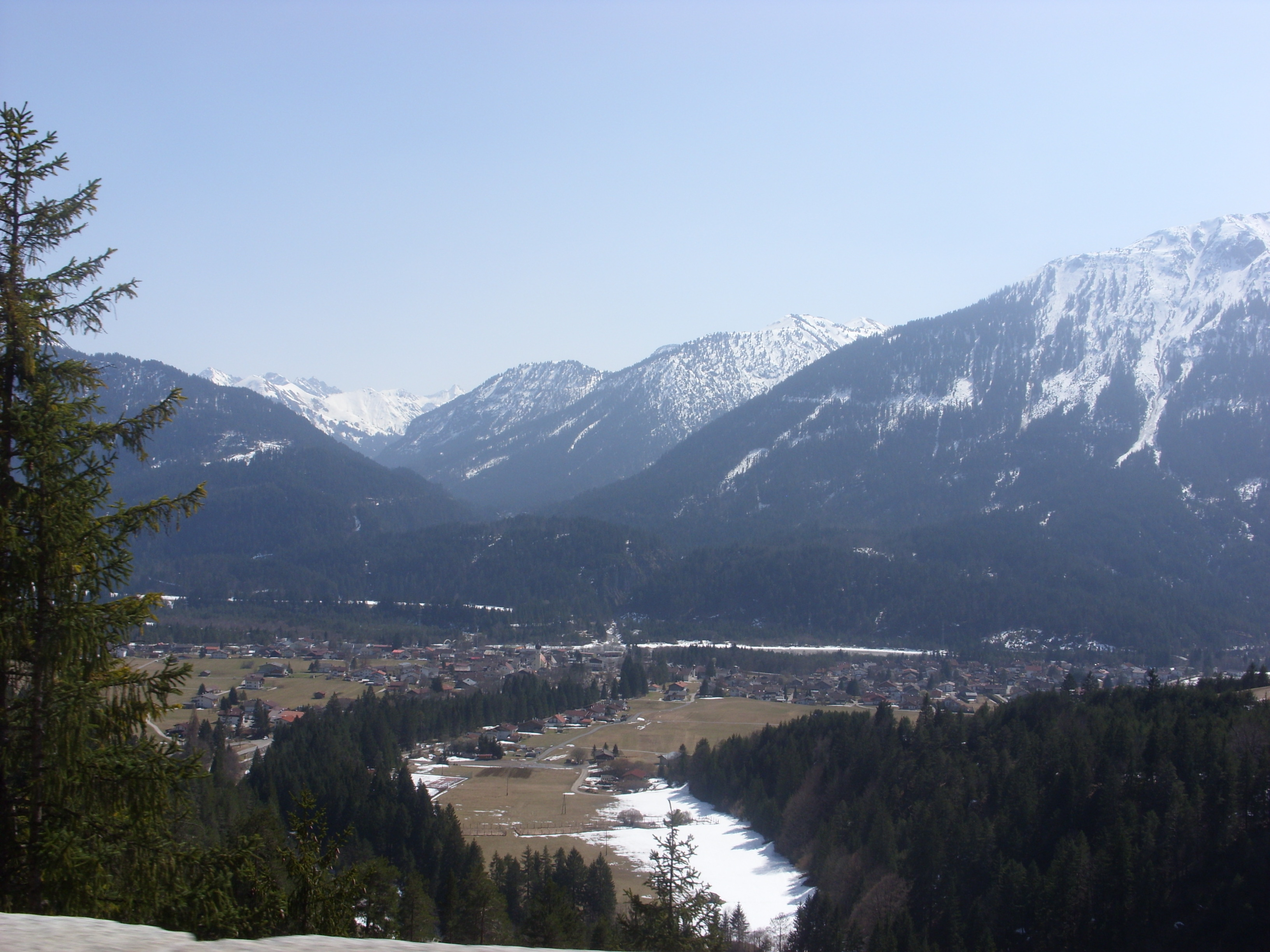 View on Weißenbach am Lech (Tyrol, Austria), seen from the Landesstraße B 199